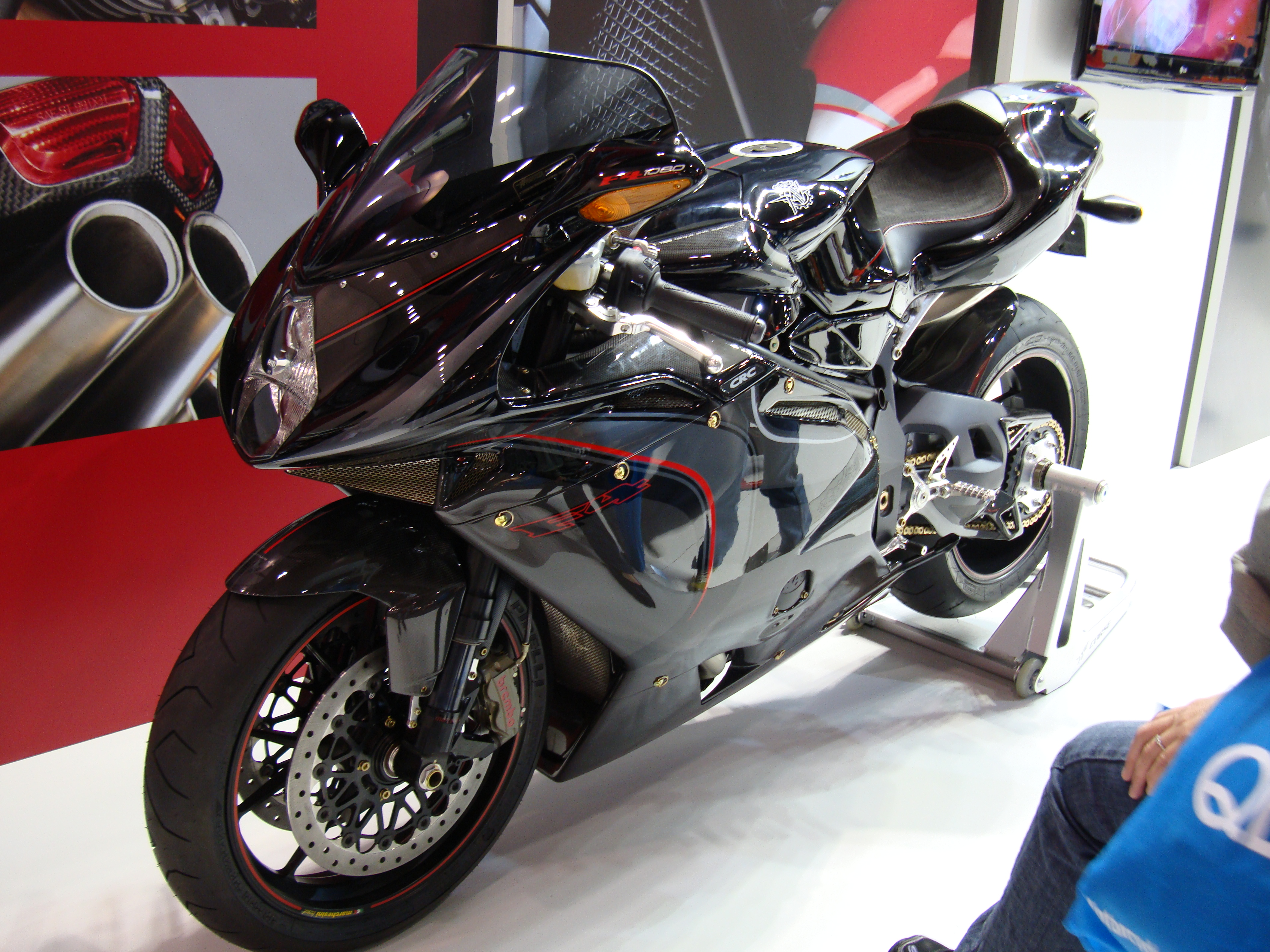 MV Agusta 1000 F4 CC